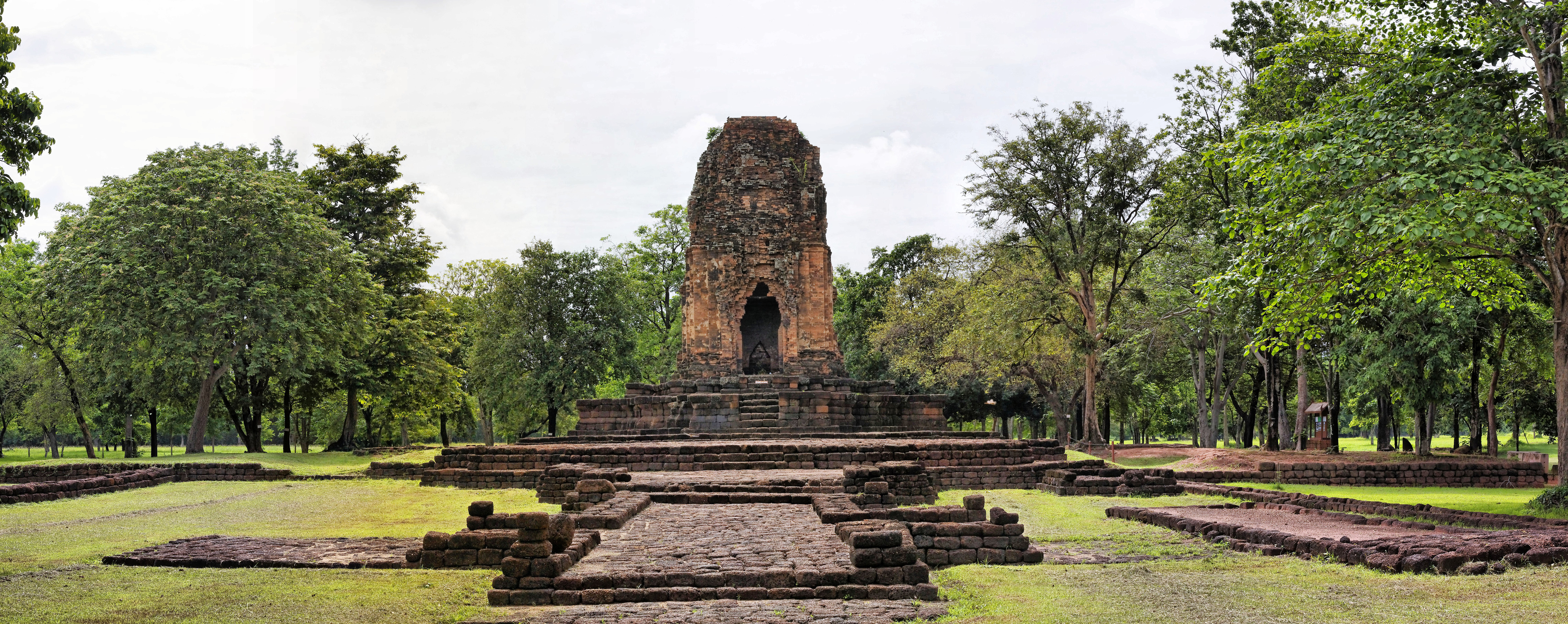 Prang Sithep, Sithep, Thailand